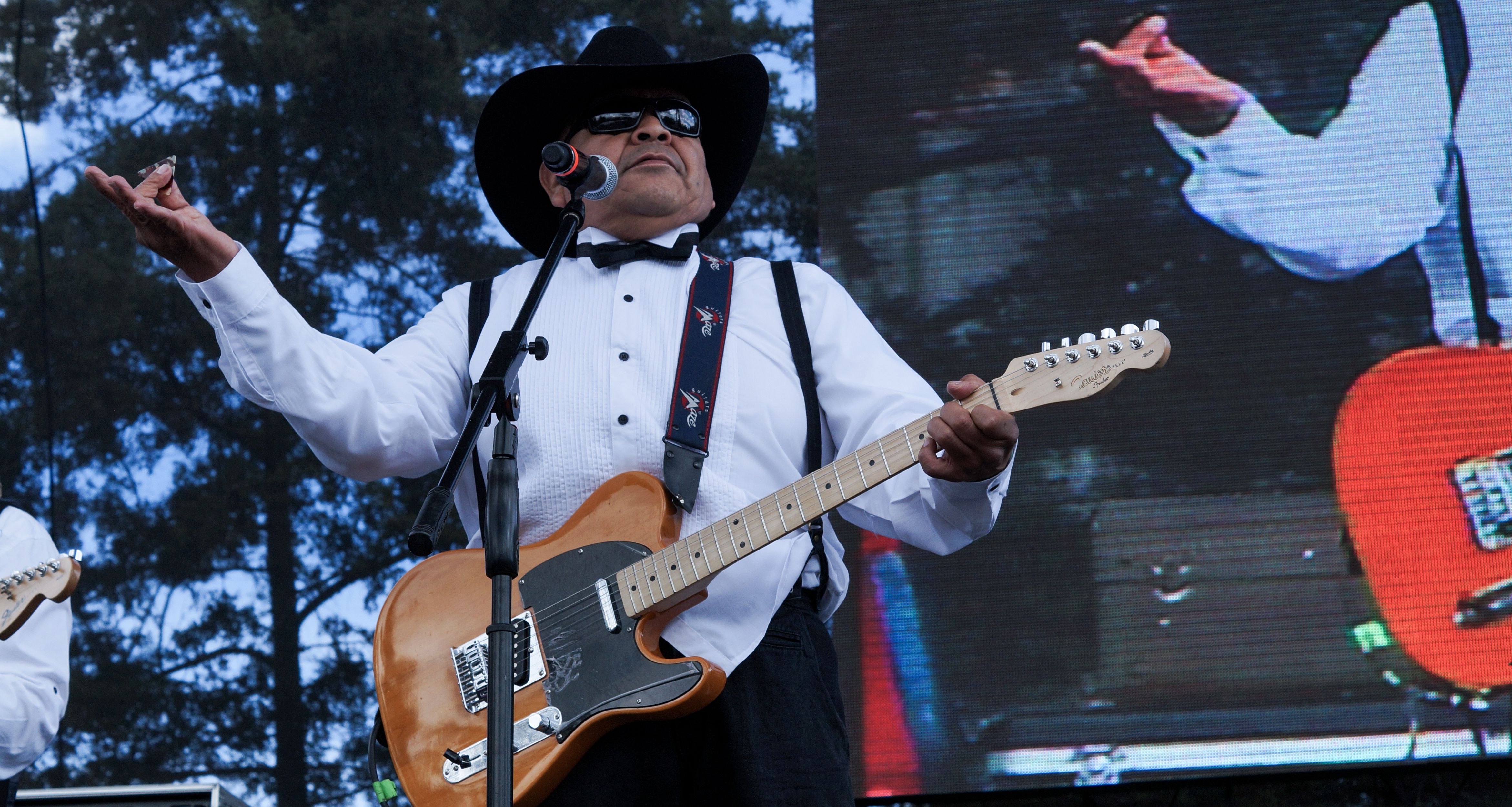 Lalo Tex, former singer of the Mexican band Tex- Tex.